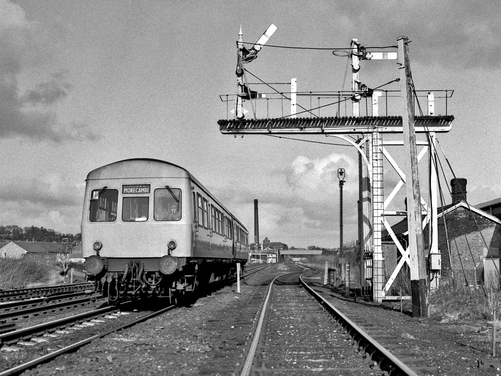 British Railways Metropolitan-Cammell RC&WCo Limited class 111 2-car diesel-mechanical multiple unit formed of E51559 and E50289 of Neville Hill T&RSMD passes Skipton Station North signal box 33 signal (Down Main Starting with 46 signal, Down Main Shunt Ahead below) and 51 signal (Down Thro' Siding Starting with 52 signal, Down Thro' Siding Shunt Ahead below) forming the 15:05 Leeds to Morecambe. Sunday 20th March 1983